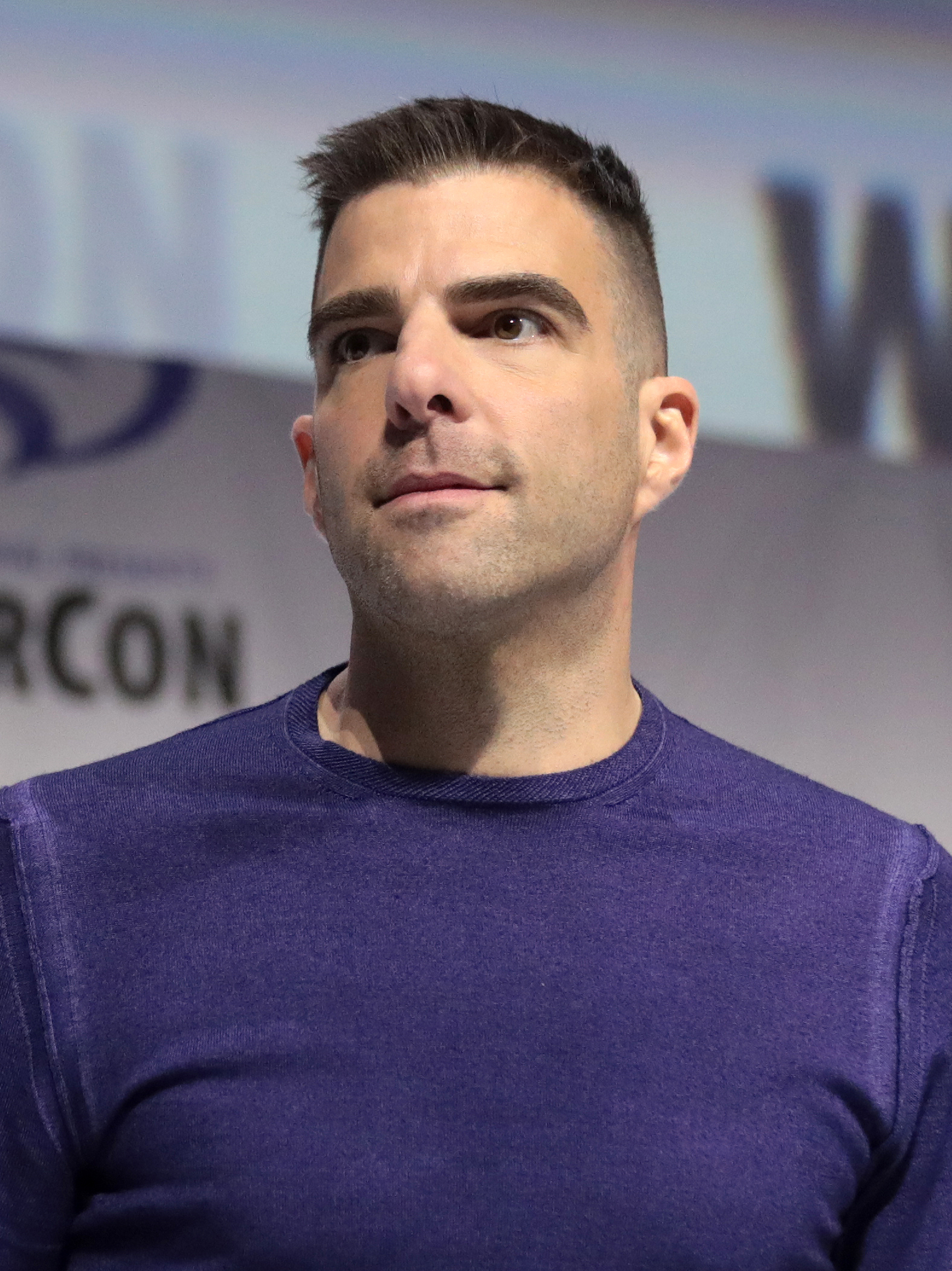 Zachary Quinto at the 2019 WonderCon in Anaheim, California.